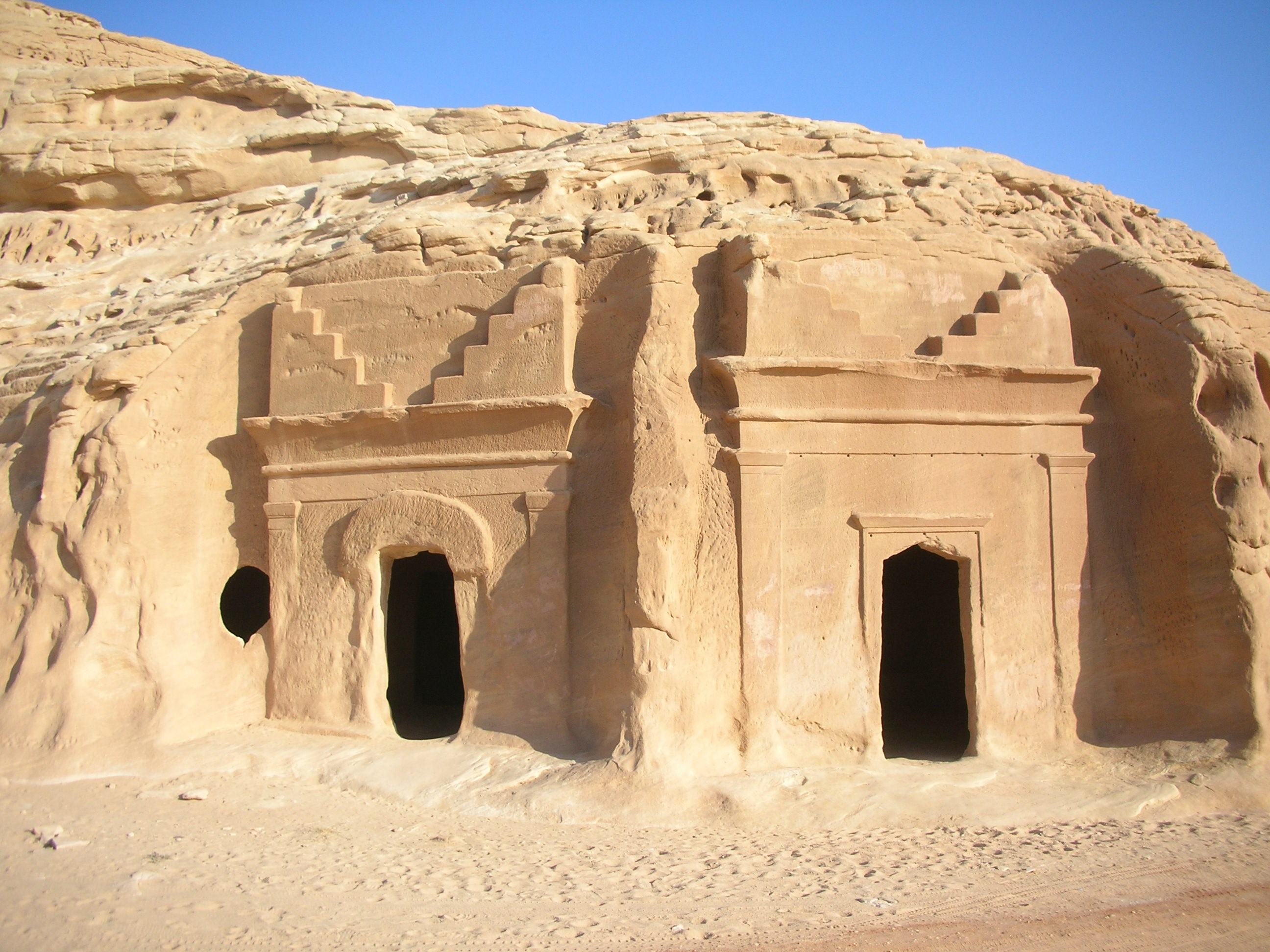 Al-Hijr Archaeological Site (Madâin Sâlih) (Saudi Arabia)